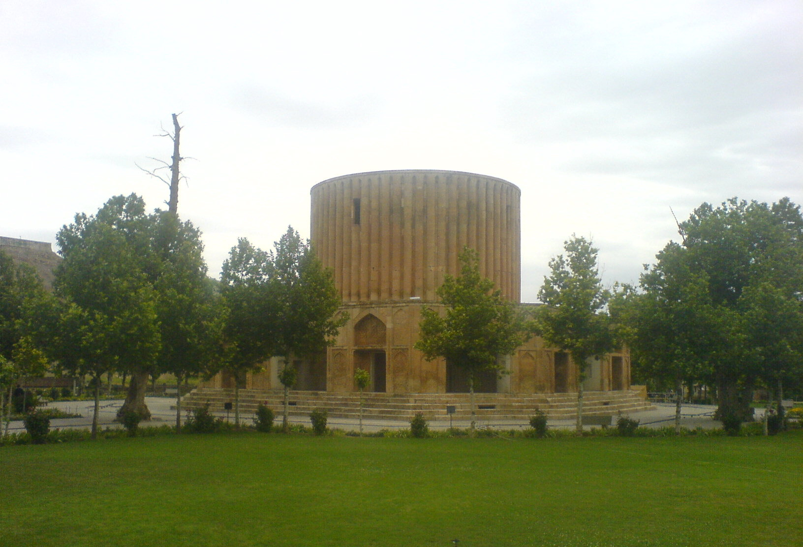 Khorshid Palace Building belonged to Afsharid dynasty in Kalat, Iran.